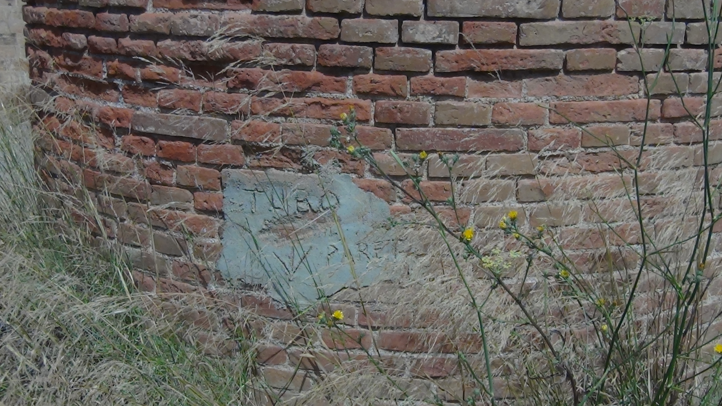 Pathologies of industrial chimneys